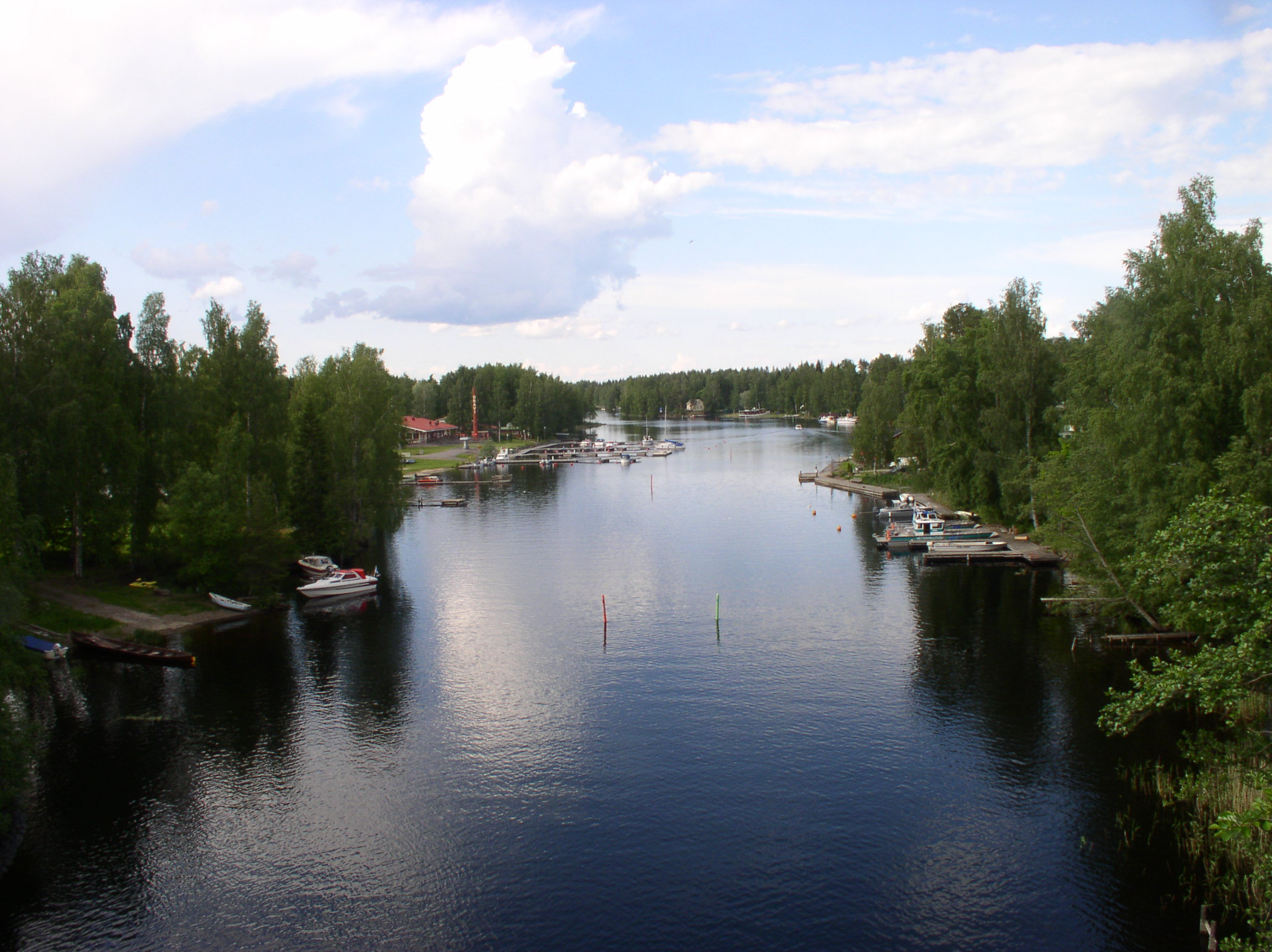 A wiev from the Oravi canal bridge toward Oravi village in Savonlinna, Finland.